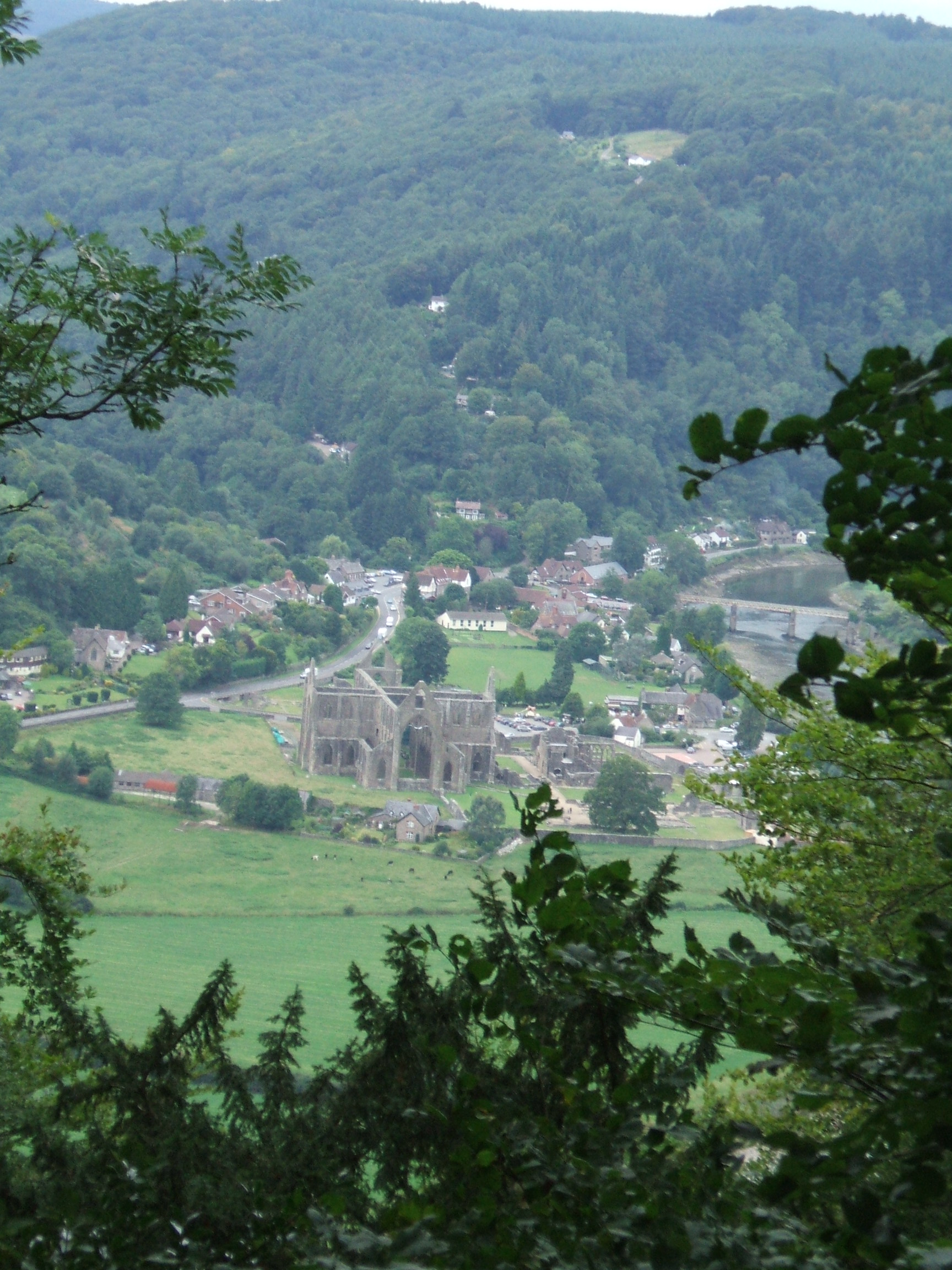 View of Tintern Abbey